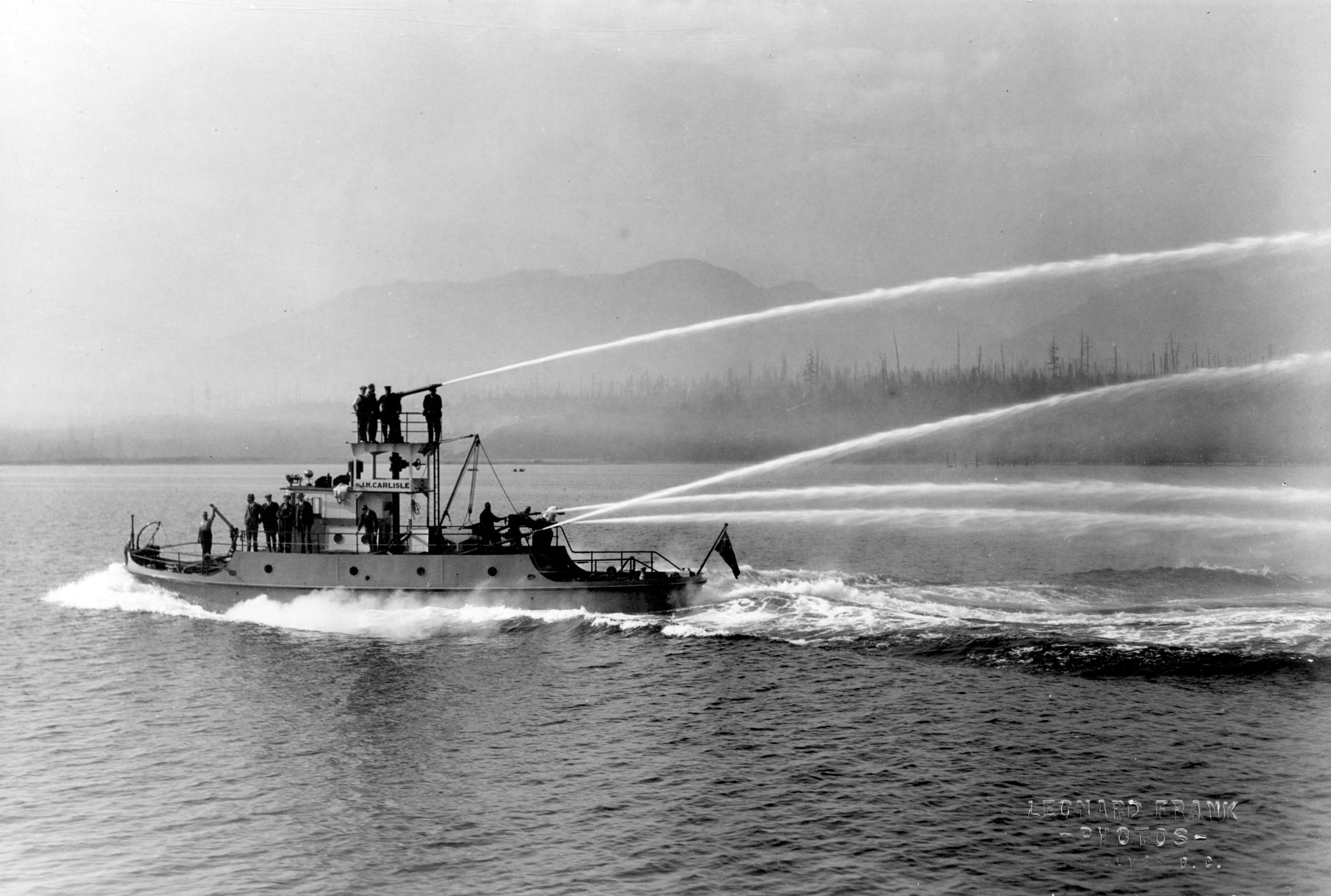 Demonstration of Vancouver's first fire boat "J.H. Carlisle" Vancouver archives ID: AM54-S4: Bo P359